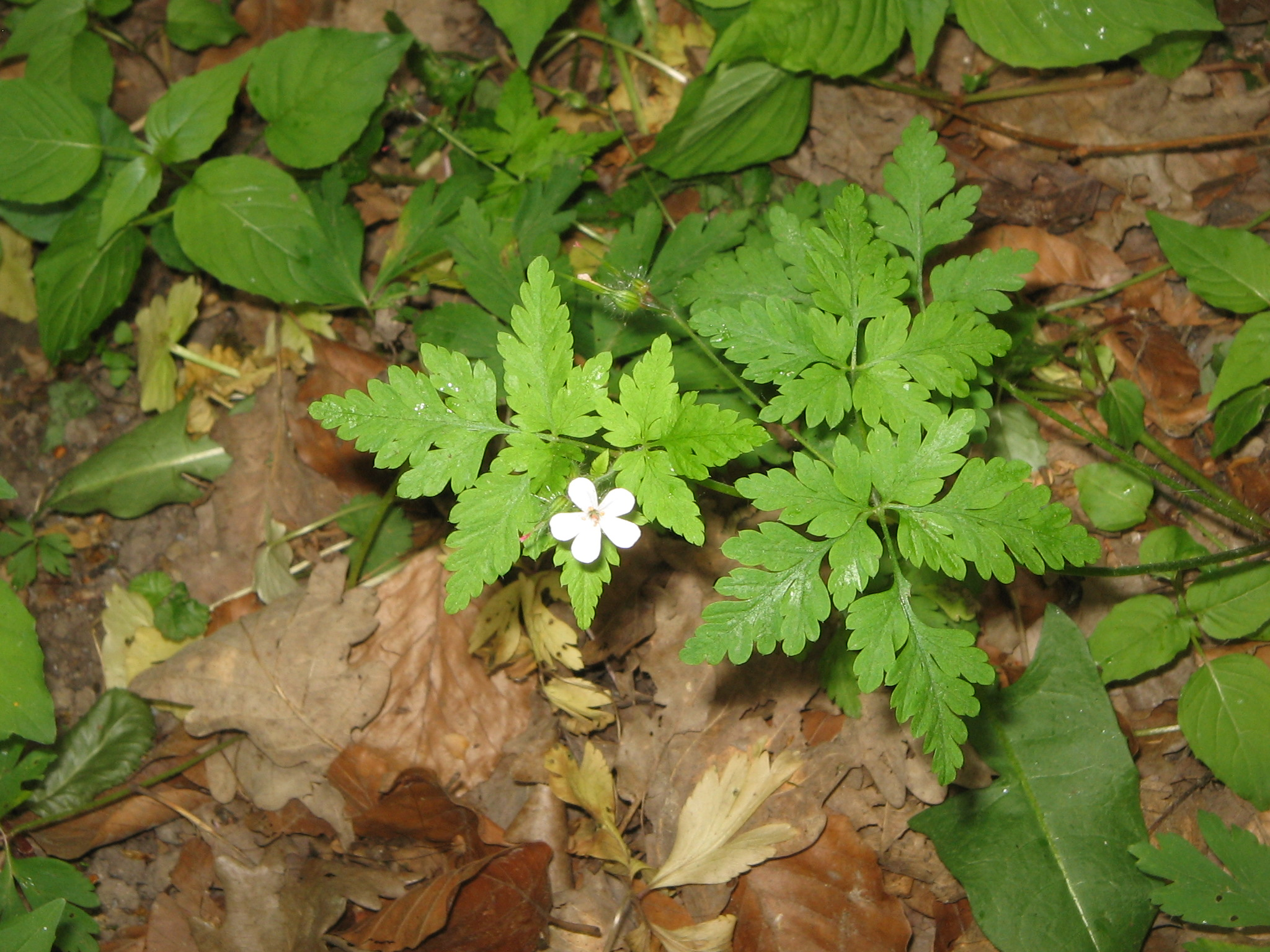 Geranium robertianum white